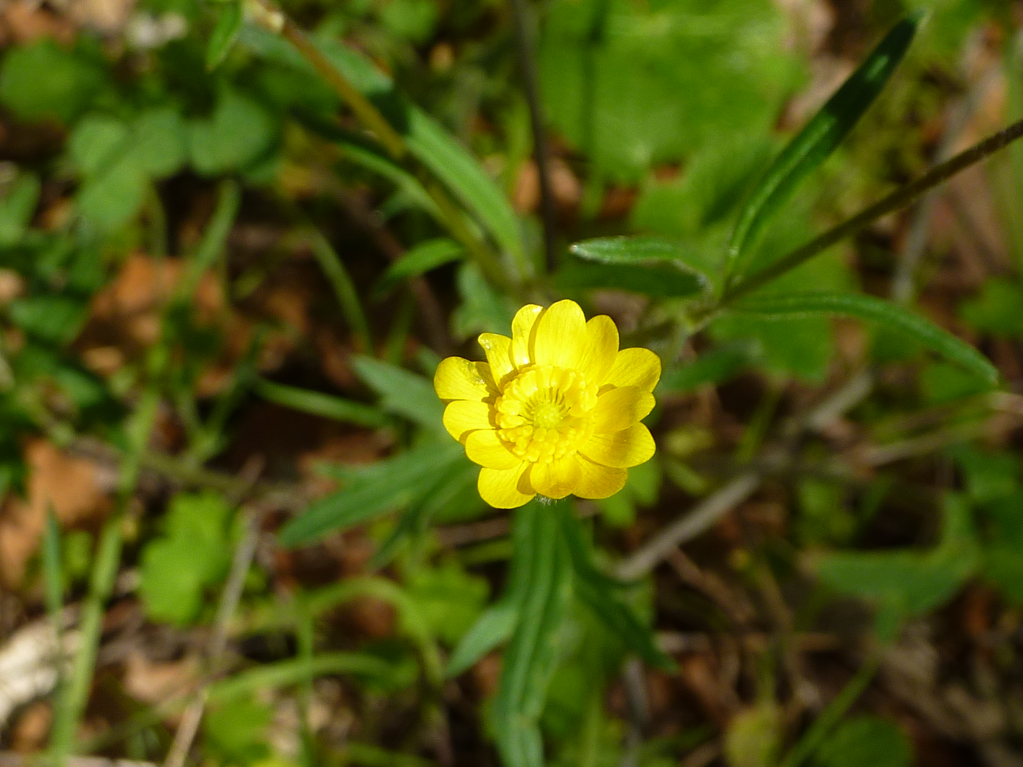 Ranunculus californicus — California Buttercup. In the Sunol Regional Wilderness, East Bay Regional Parks District of the San Francisco Bay Area, California. March 2011.